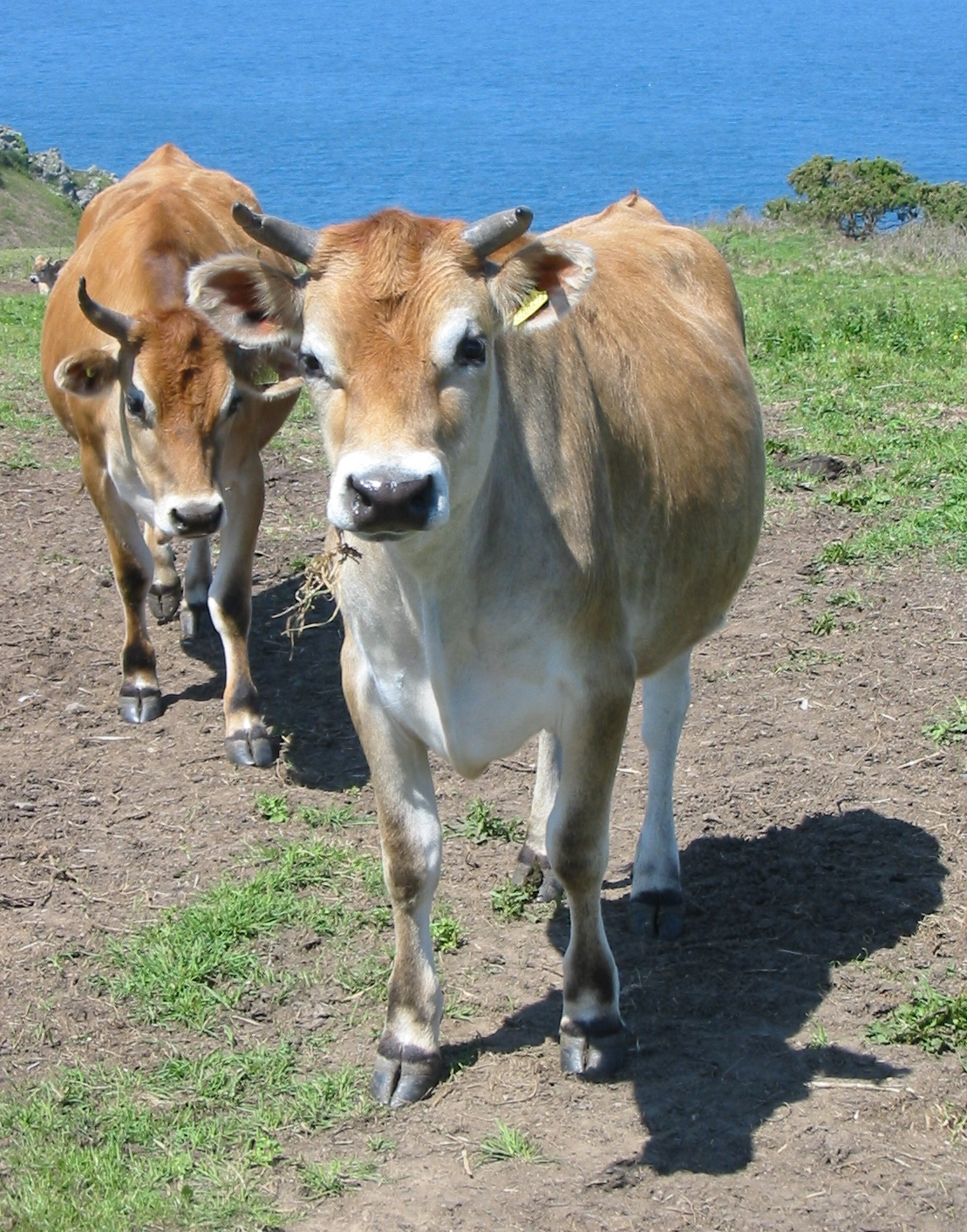 Jersey cattle, Trinity, Jersey Nrf: Bouëts d'Jèrri, La Trinneté, Jèrri